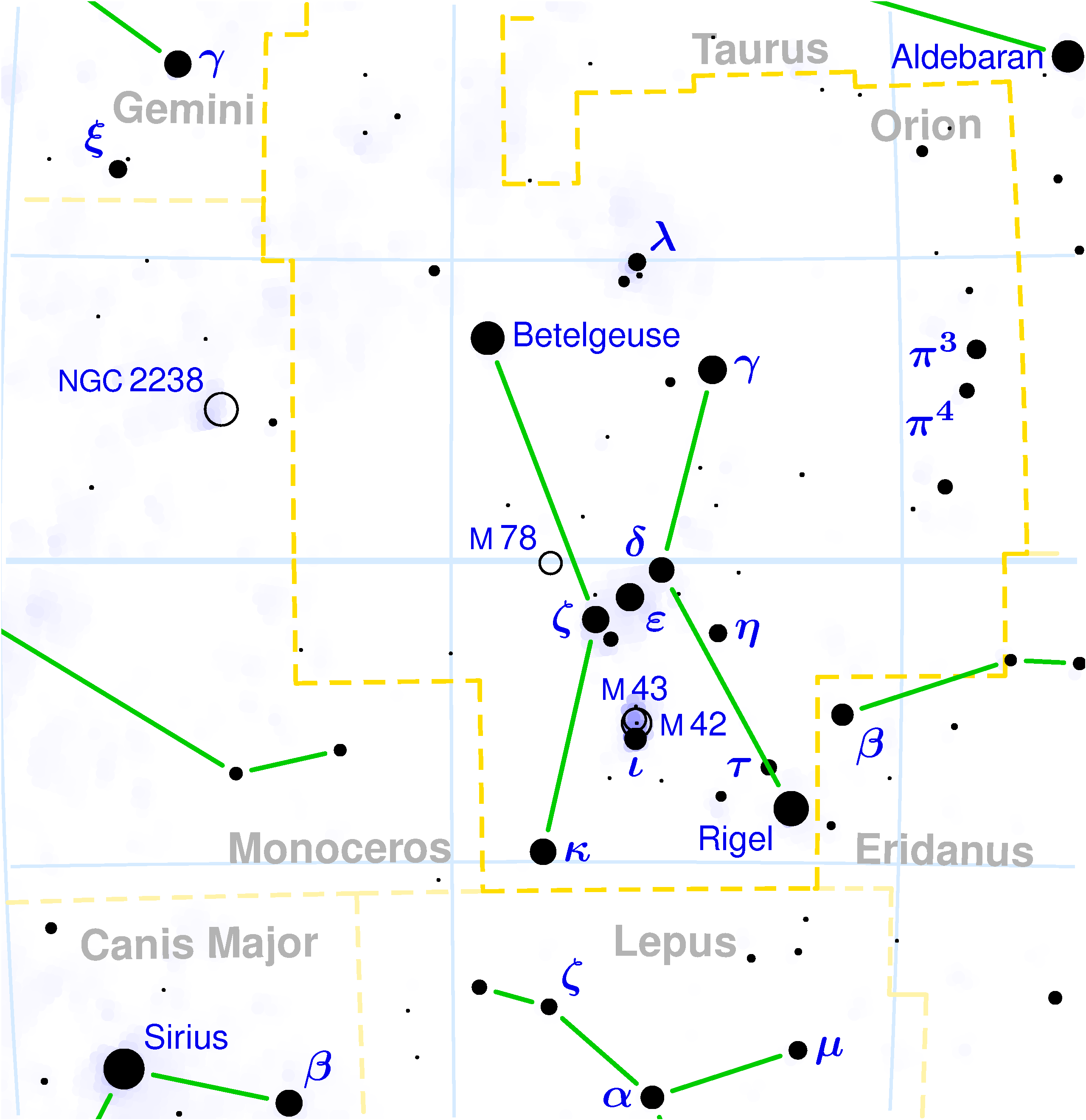 This is a celestial map of the constellation Orion the Hunter. It was created using the program PP3. At PP3's homepage, you also get the input scripts necessary for re-compiling the map. The yellow dashed lines are constellation boundaries, the red dashed line is the ecliptic, and the shades of blue show Milky Way areas of different brightness. The map contains all Messier objects, except for colliding ones. The underlying database contains all stars brighter than 6.5. All coordinates refer to equinox 2000.0. The map is calculated with the equidistant azimuthal projection (the zenith being in the center of the image). The north pole is to the top. The (horizontal) lines of equal declination are drawn for 0°, ±10°, ±20° etc. The lines of equal right ascension are drawn for all 24 hours. Towards the rim there is a very slight magnification (and distortion).